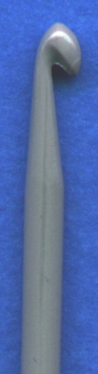 Particular of a crochet hook